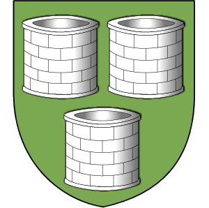 Municipal coat of arms of Tři Studně ("Three Wells") village, Žďár nad Sázavou District, Czech Republic.